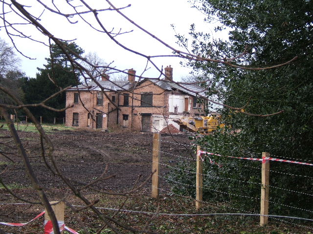 Boughton Hall, Boughton, Chester This Old Hall lies in a large plot of land. Developers have started the task of clearing the site, ready for a new housing development.